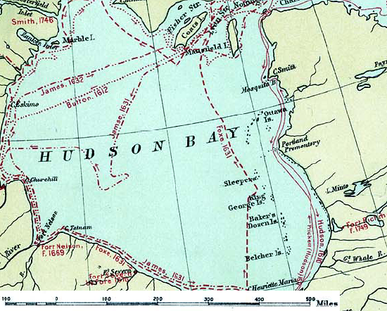 Map of the routes of the main European explorers in Hudson Bay, Canada.